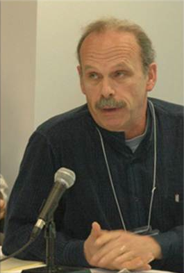 Josh Fogel, historian of the relationship between China and Japan.